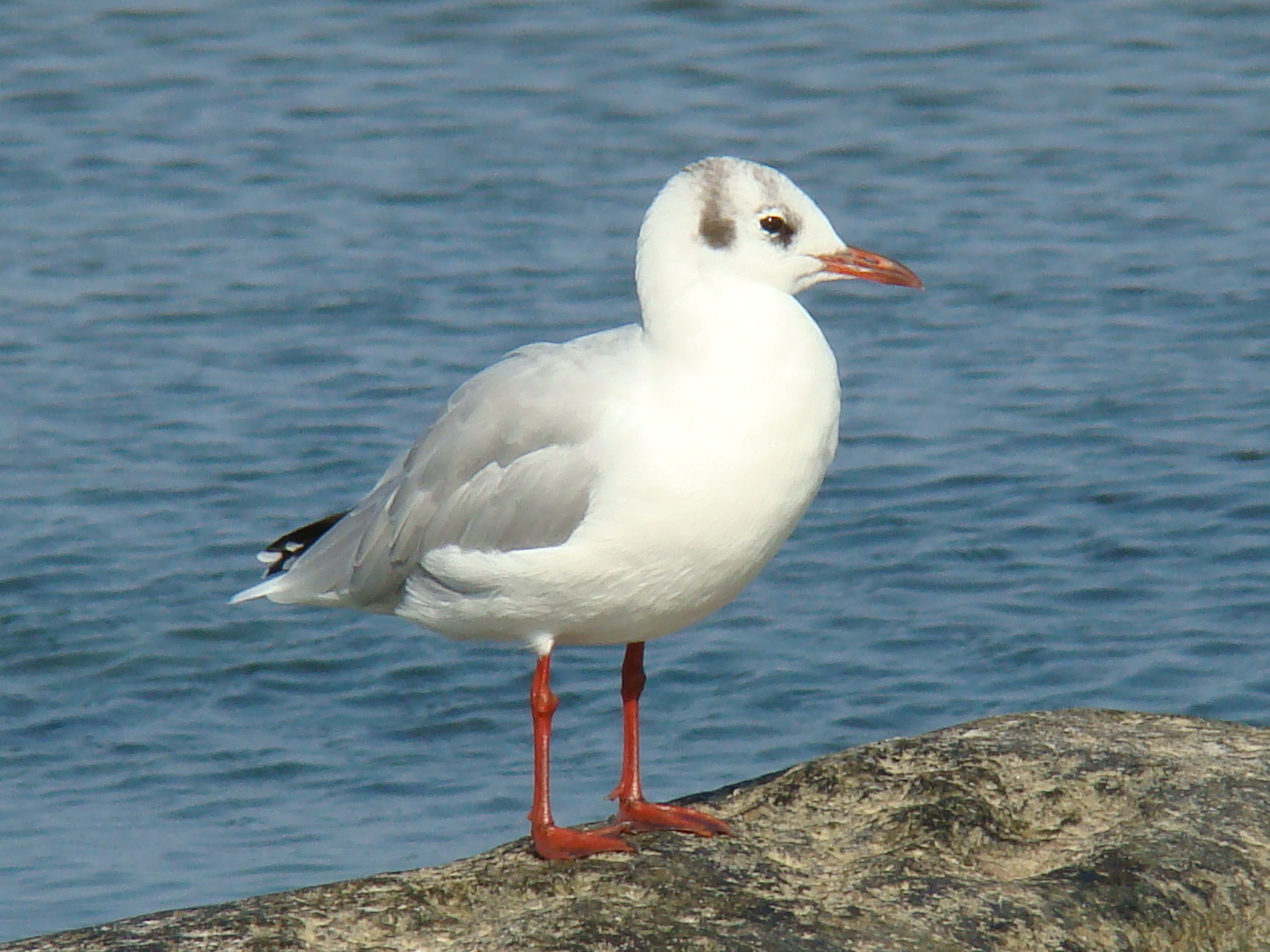 Photo of the Black-headed Gull (Larus ridibundus) in Palanga, Lithuania.